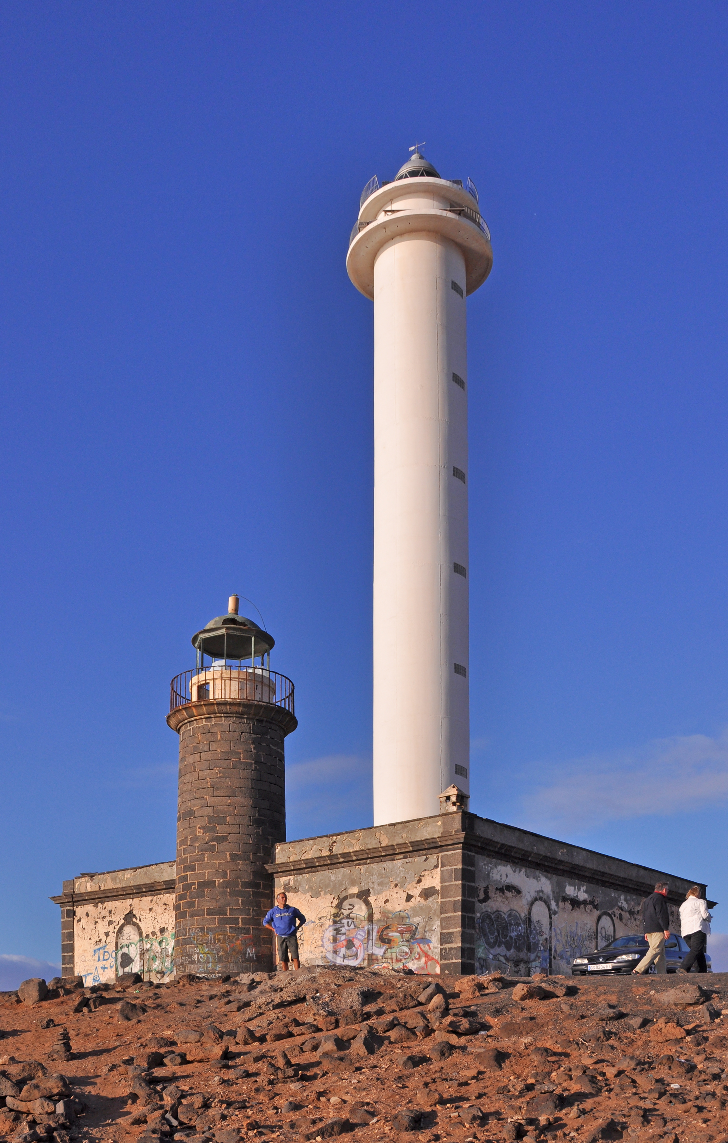 Playa Blanca (Yaiza municipality, Lanzarote, Canary Islands): the lighthouse of Punta Pechiguera